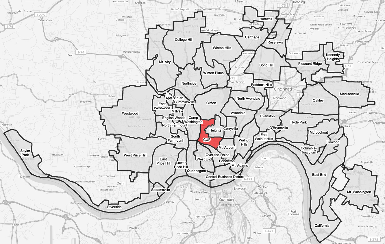 A map of the neighborhood of Avondale within Cincinnati, Ohio. Neighborhood lines are based on information from This street map is derived from a free map.